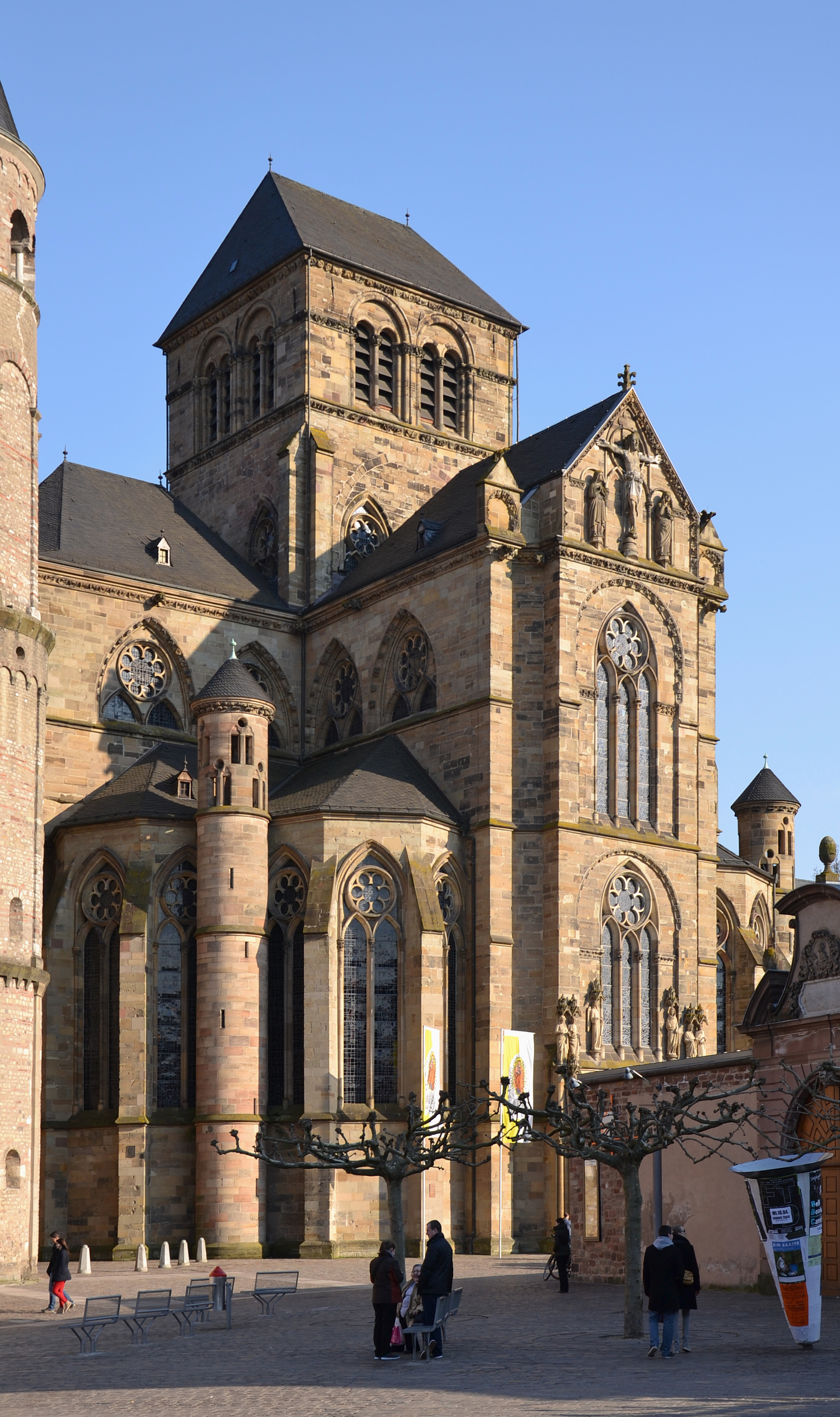 Church of Our Lady, Trier, Germany